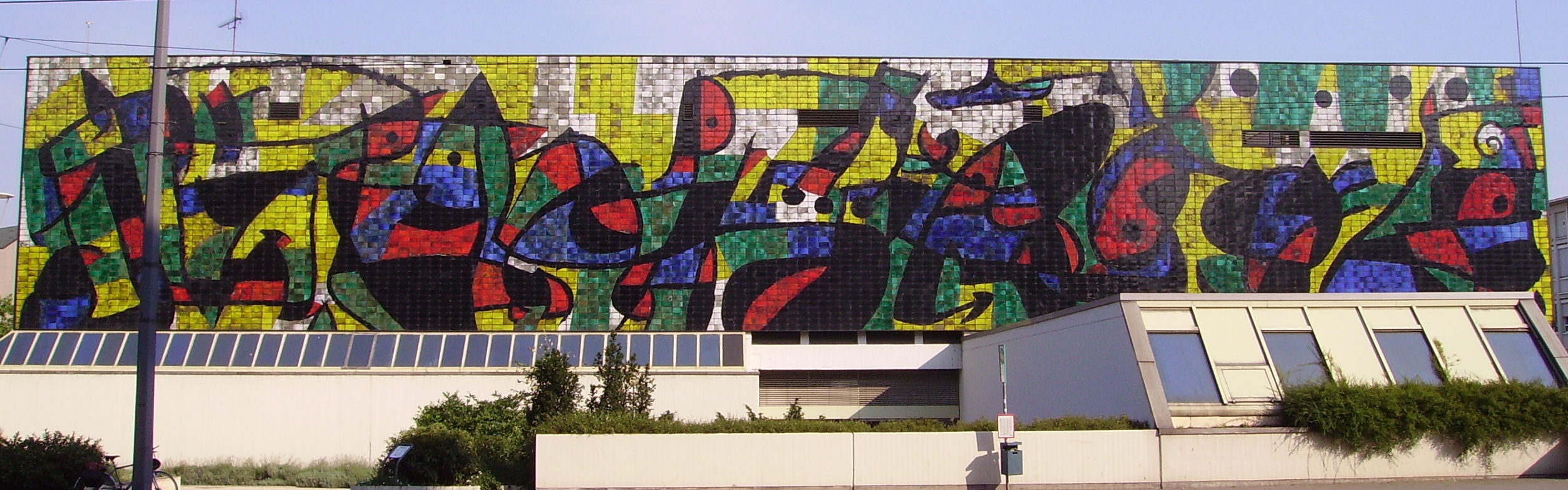 mural of Joan Miró in Ludwigshafen, Germany